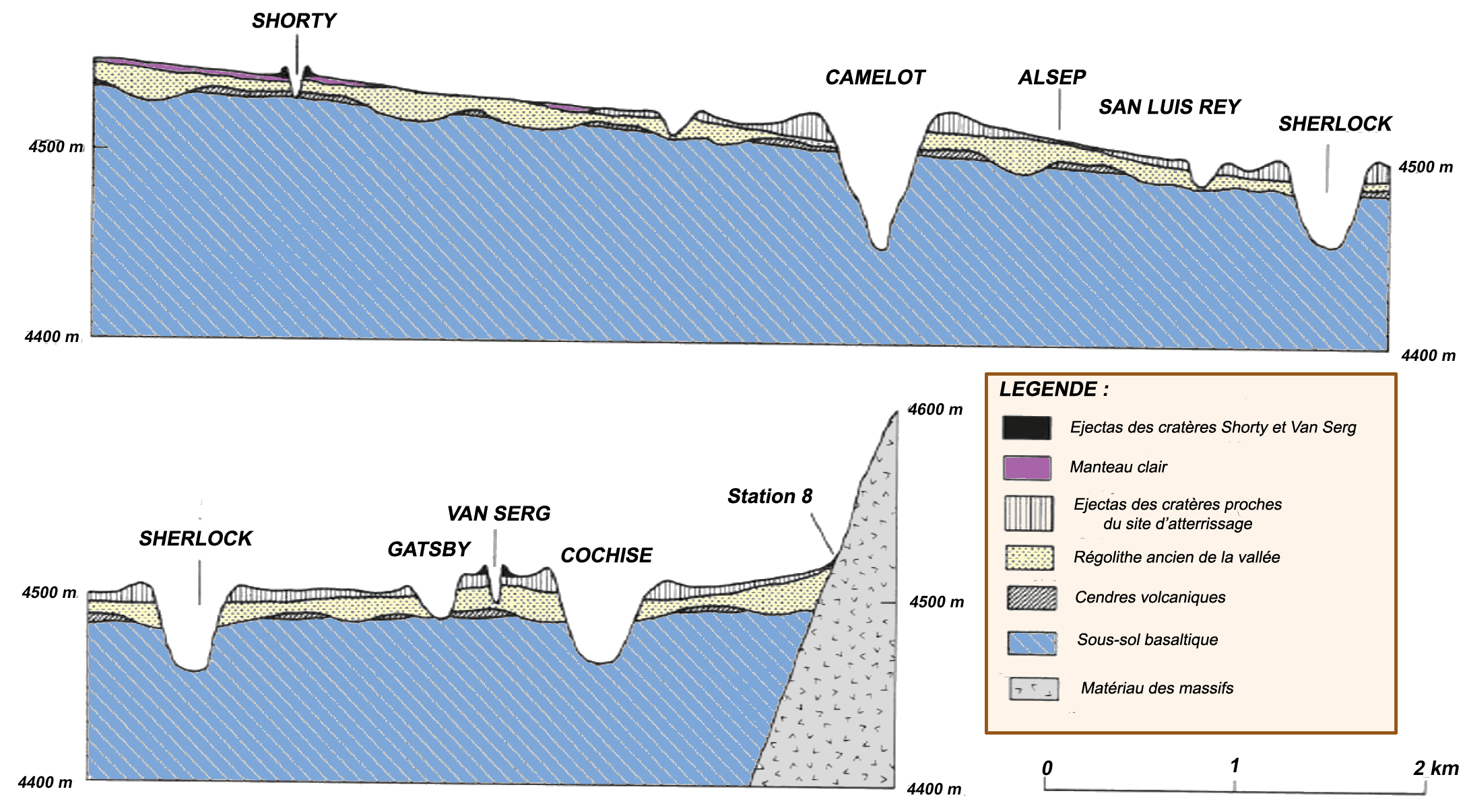 Apollo 17. Taurus Littrow valley. Cross sections showing relations inferred among the subfloor basalt and the overlying volcanic ash and regolith units. Topographic profile derived from National Aeronautics and Space Adminitsitorna 1:50,000-scale Lunar Topographic Map - Taurus-Liittrow . Vertiical exaggeration is x 10. Source UGSS study 1981. Labels in french